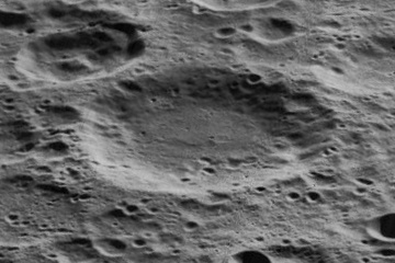 Oblique view of Polzunov, on the far side of the moon, facing west.